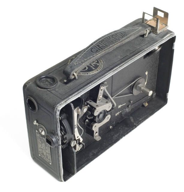 Cine Kodak camera with open side plate. (Photo by Oleg Volk)